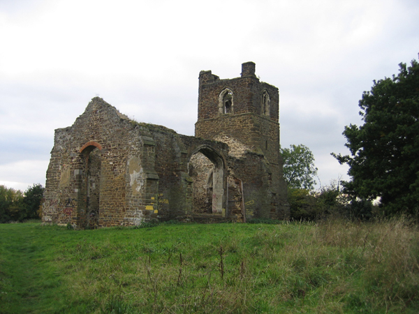 Ruined church of St Mary's, Clophill, Beds. Redundant since 1972, the church stands on a lonely hilltop north of the village; it has a rich history of myths and legends but is subject to anti-social activities and ritual vandalism.